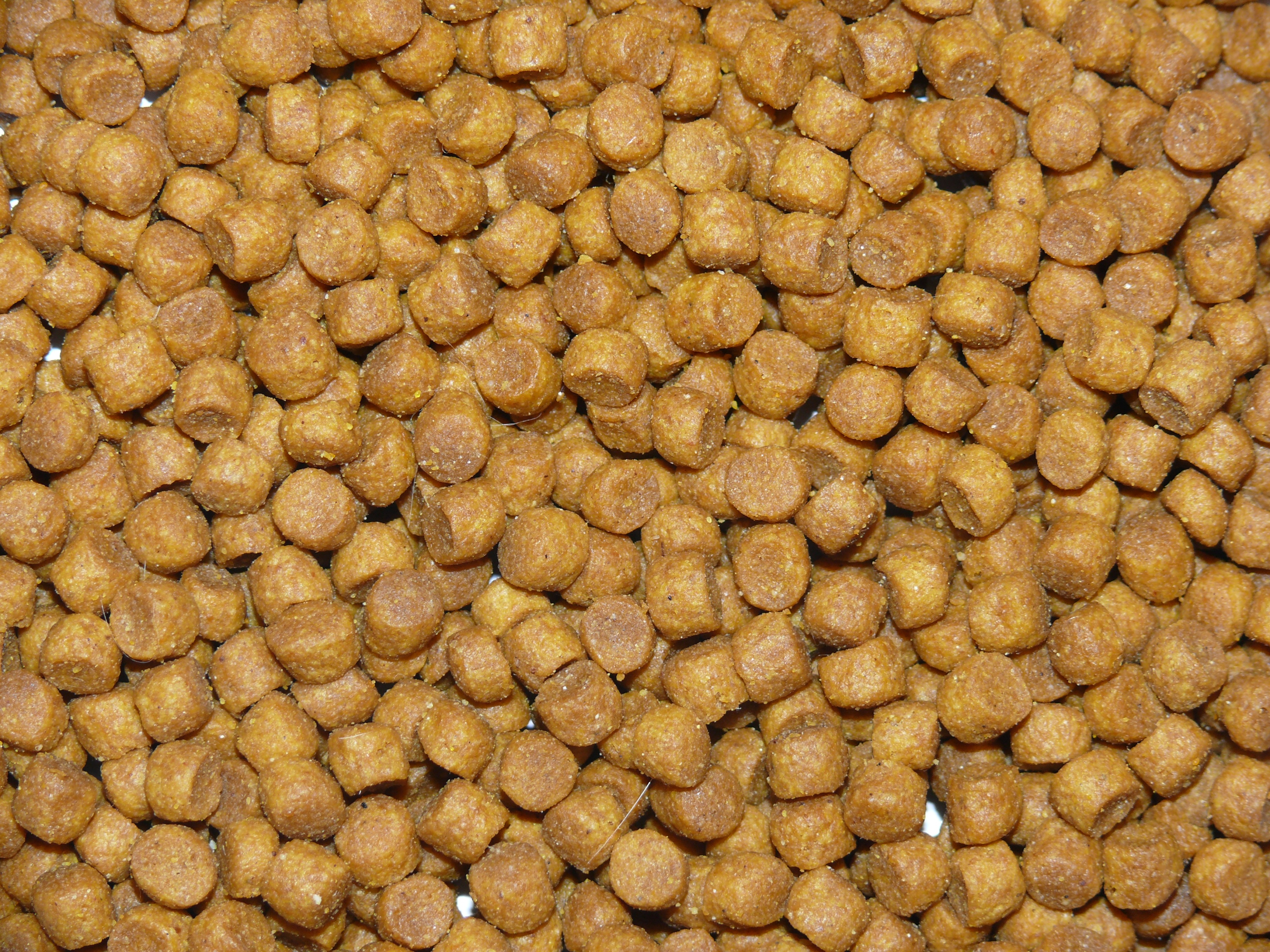 Cat food